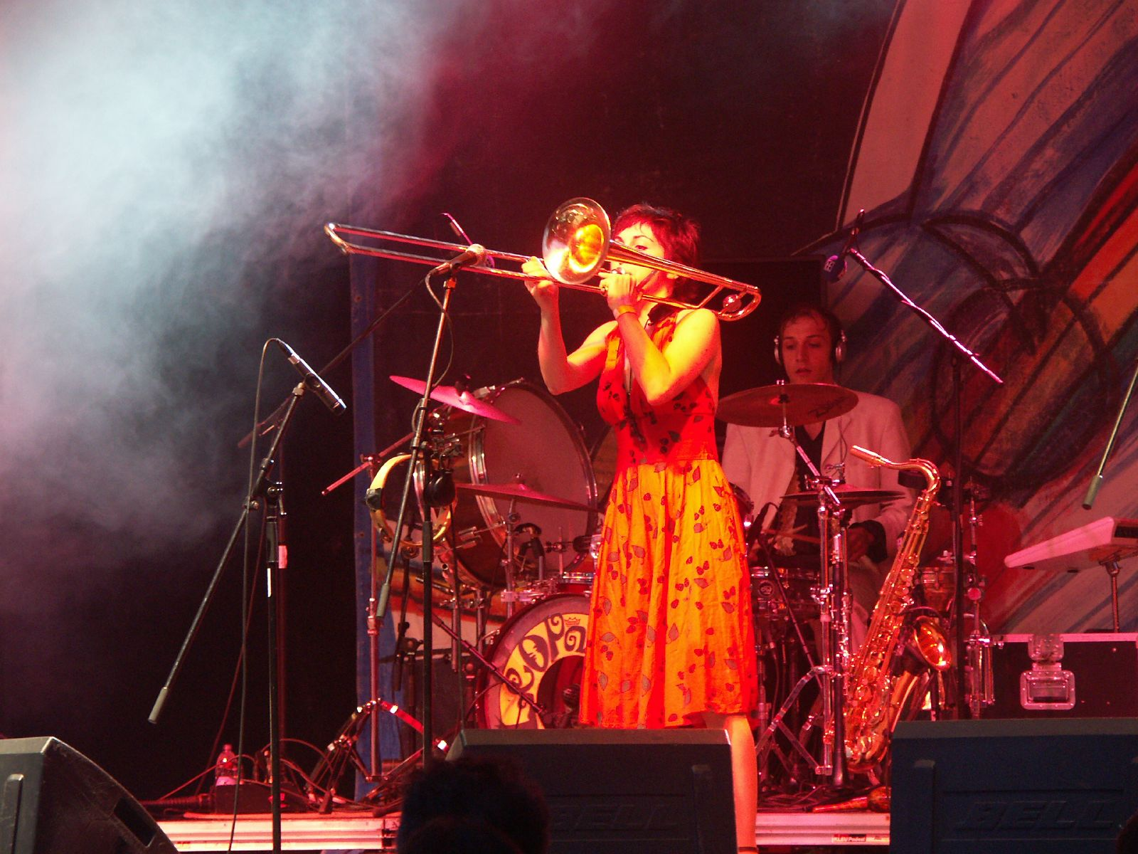 LéOparleur at the Music Festival "Bardentreffen" in Nuremberg (Germany) 2007